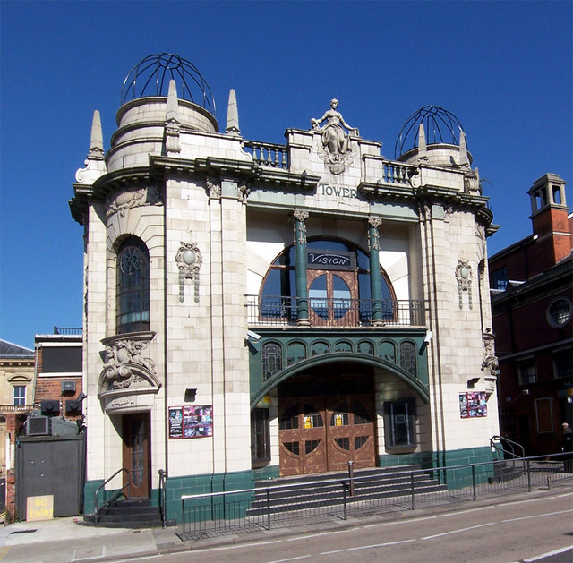 Tower Cinema, Anlaby Road. Built 1914 by H. Percival Banks of Hull. Ornately decorated front of green and cream faience. Large recessed central arch with Ionic pillars to first floor above balcony. Allegorical female on the parapet and above the corners two domes decorated with green and yellow mosaic. The corner entrances have scrolled pediments with swags and cartouches. Pevsner commented in 1972 that its belated Art Nouveau details were "undeniably debased in the extreme, but the young have begun to like this sort of thing". It appears that since this description was written in the "Buildings of England" that the mosaic on the domes has gone.